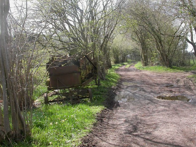 Alderholt, elevator The lane from Lower Daggons to Daggons seems to be a graveyard for old agricultural machinery: here, an elevator, made by Reeves of Westbury, gently decomposing.